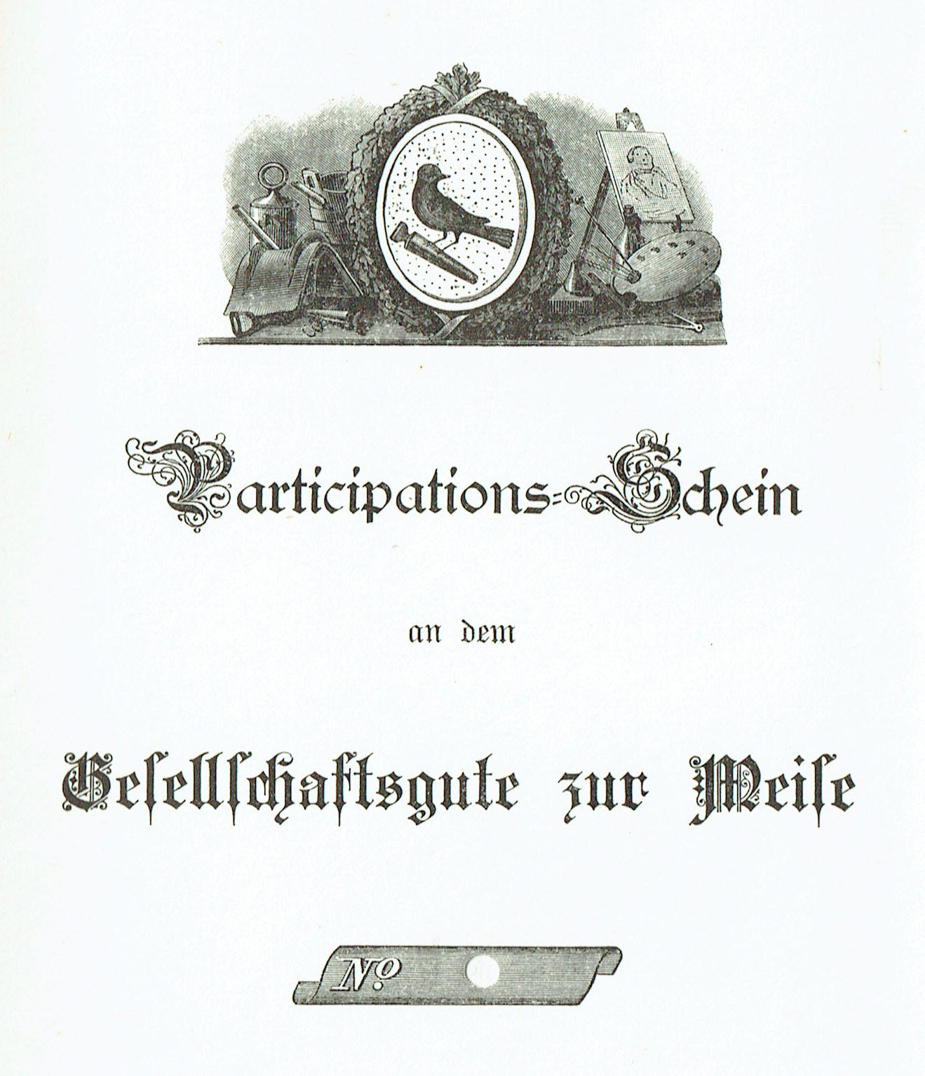 Particification certificate of the Zunft zur Meise, issued 1870, front side